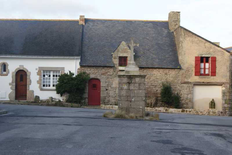 Medieval Village of Kervalet (France)